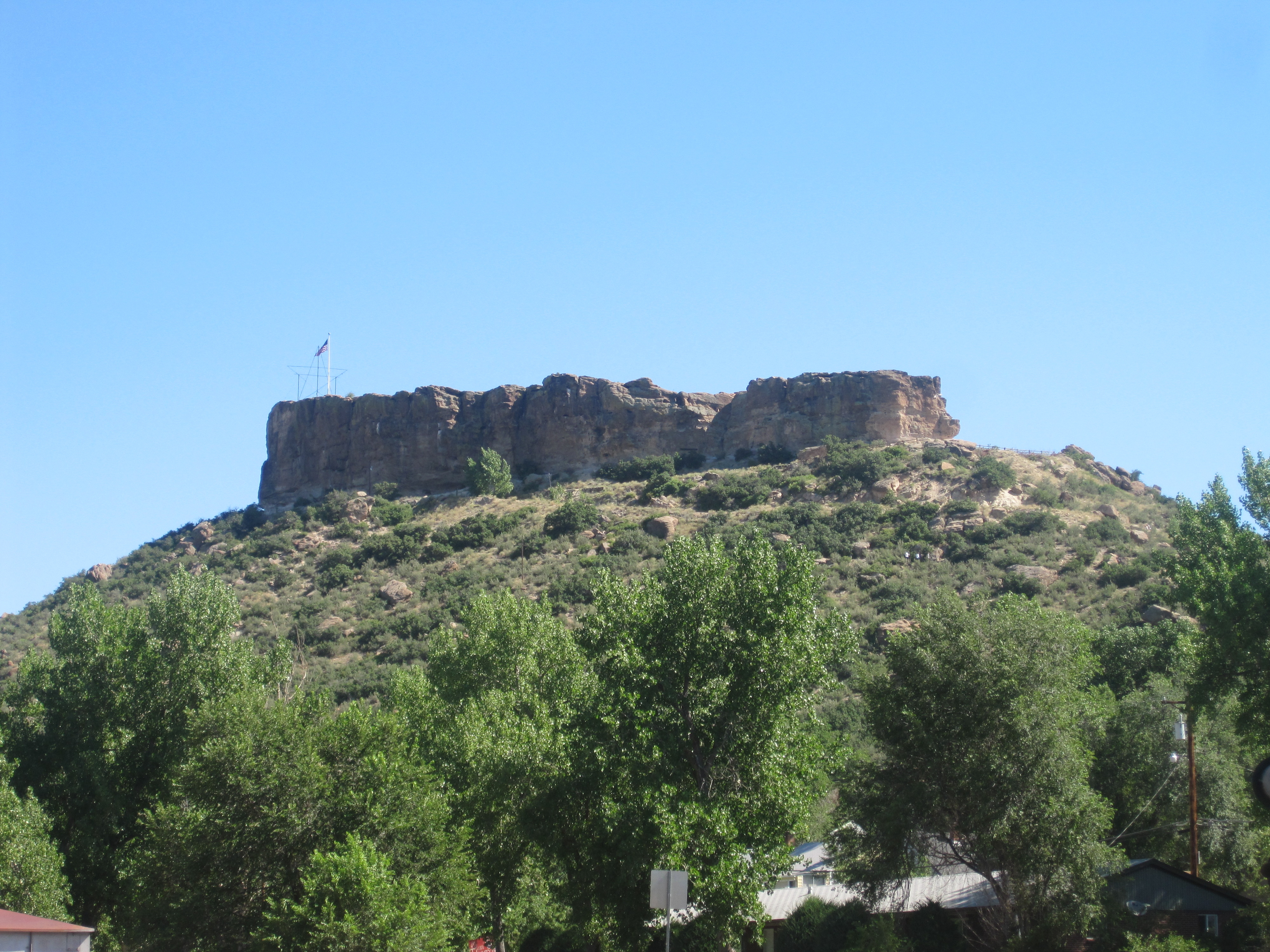 I took photo with Canon camera in Castle Rock, CO.